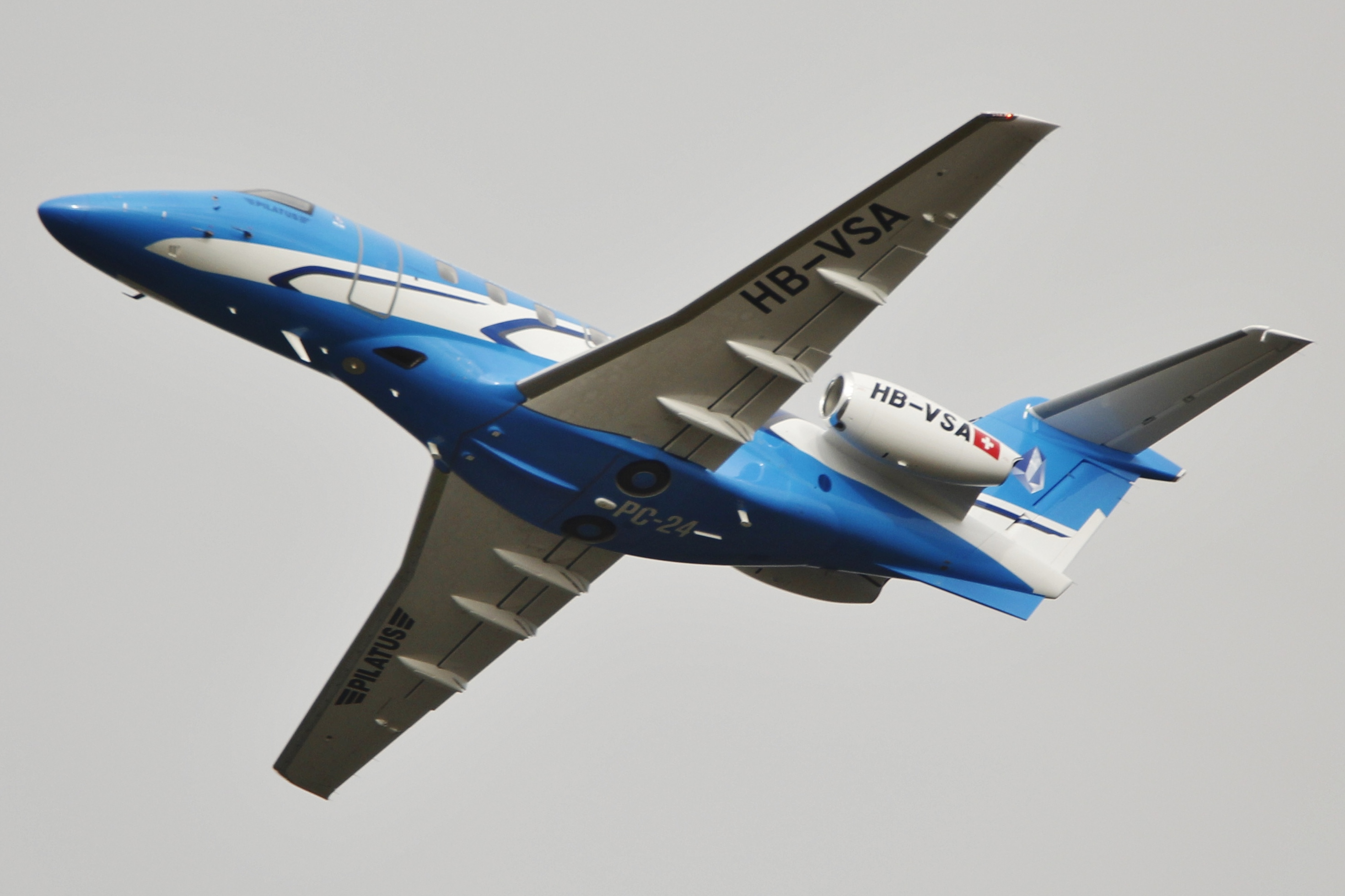 Pilatus PC-24 HB-VSA overflying Sumburgh, Scotland, 1 nov 2017.jpg